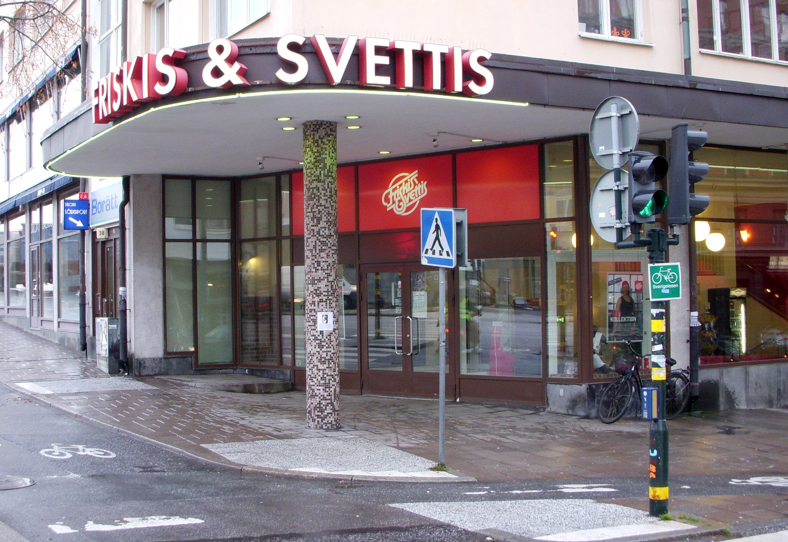 The former movie theater "Flamman" at Södermalm, Stockholm, now Friskis & Svettis Hornstull